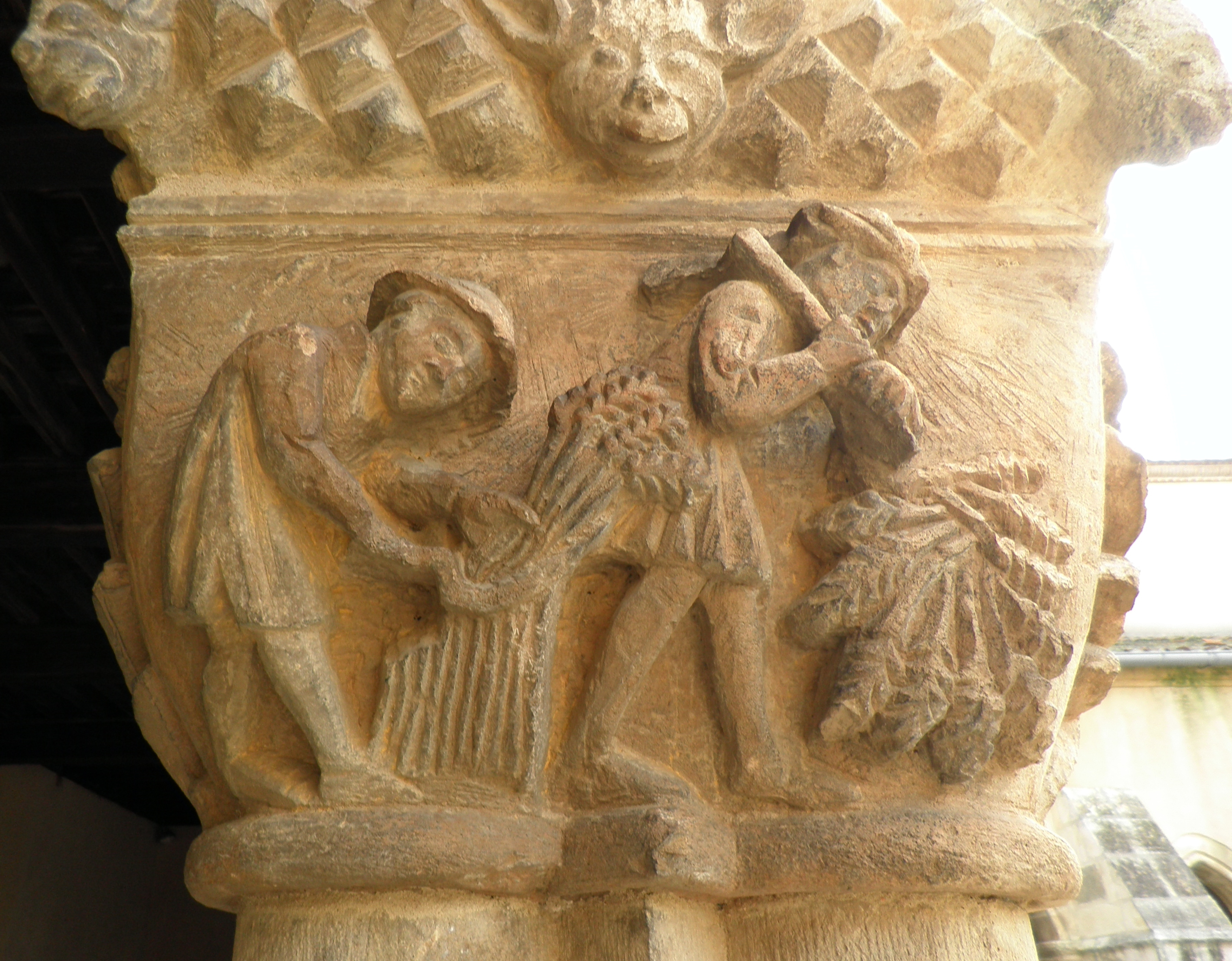 Side B of 7th capital in easthern corridor of the church of Santa María la Real de Nieva, Segovia province, Spain. Farmers working on wheat harvest.